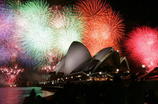 Fireworks burst over the Sydney Opera House Saturday, Sept, 7, 2007, during a dinner display in celebration of the opening of the Asian-Pacific Economic Cooperation summit. White House photo by Chris Greenberg